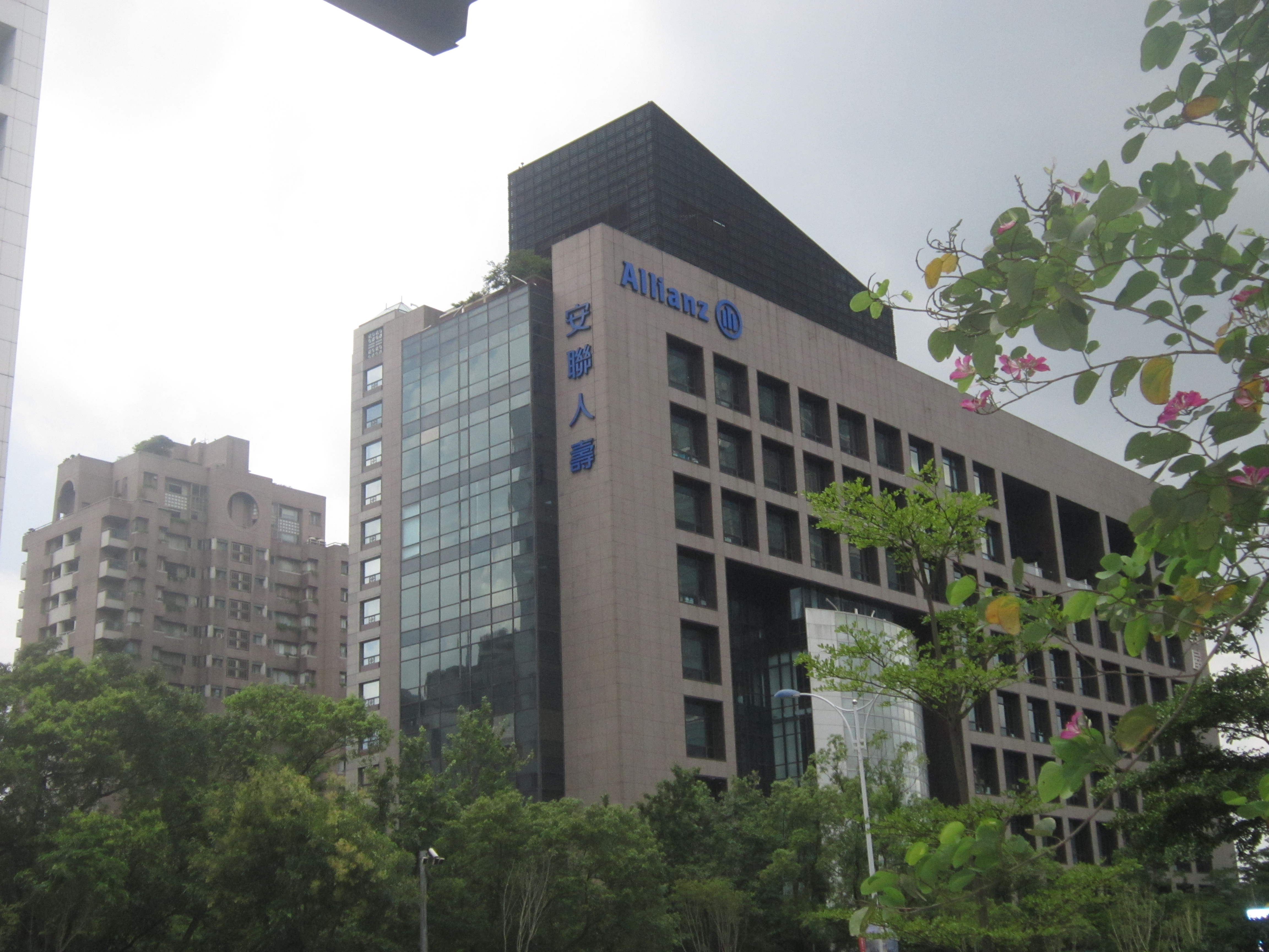 Allianz Life Taiwan headquarters on Xinyi Road, Xinyi District, Taipei City.